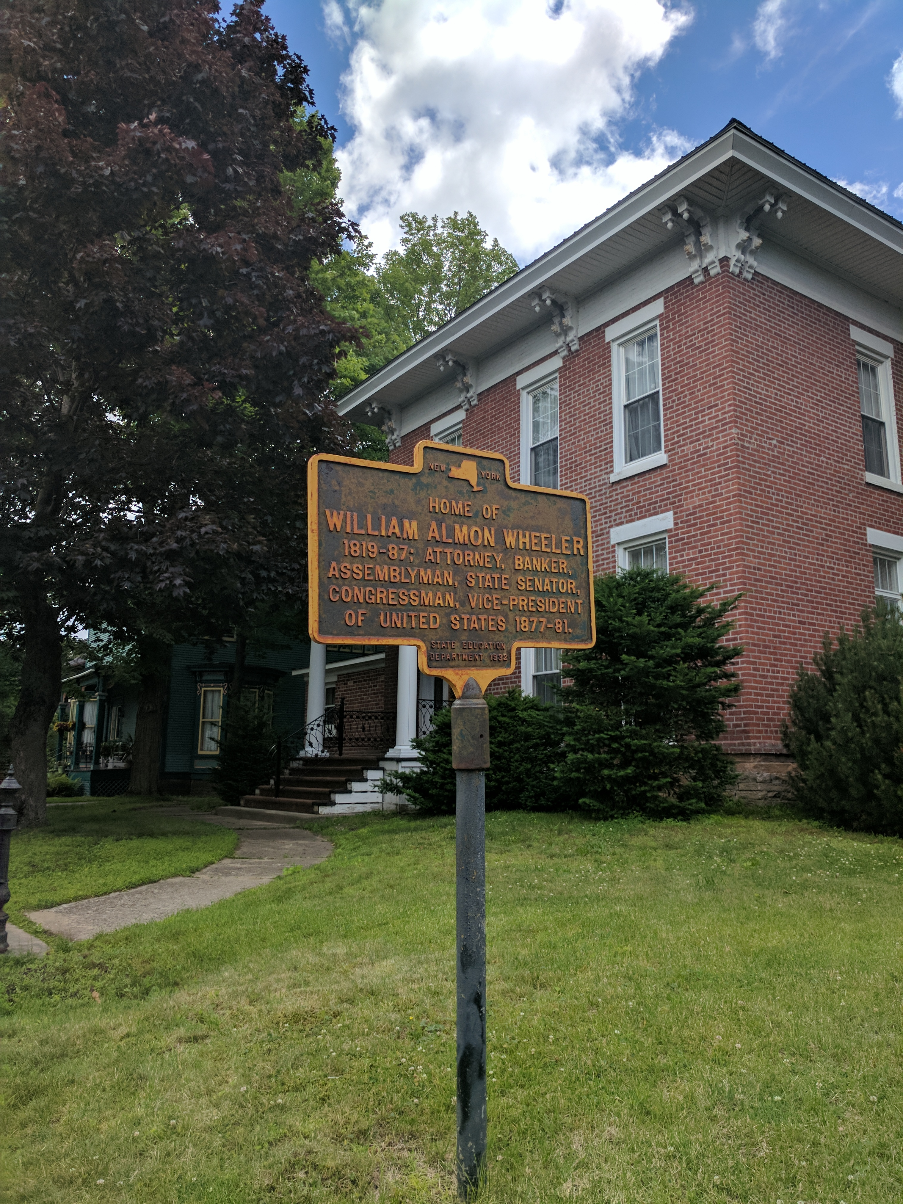 The home of the 19th Vice President of the United States of America, William A. Wheeler, in Malone, NY. The house is currently an Elk's Lodge.